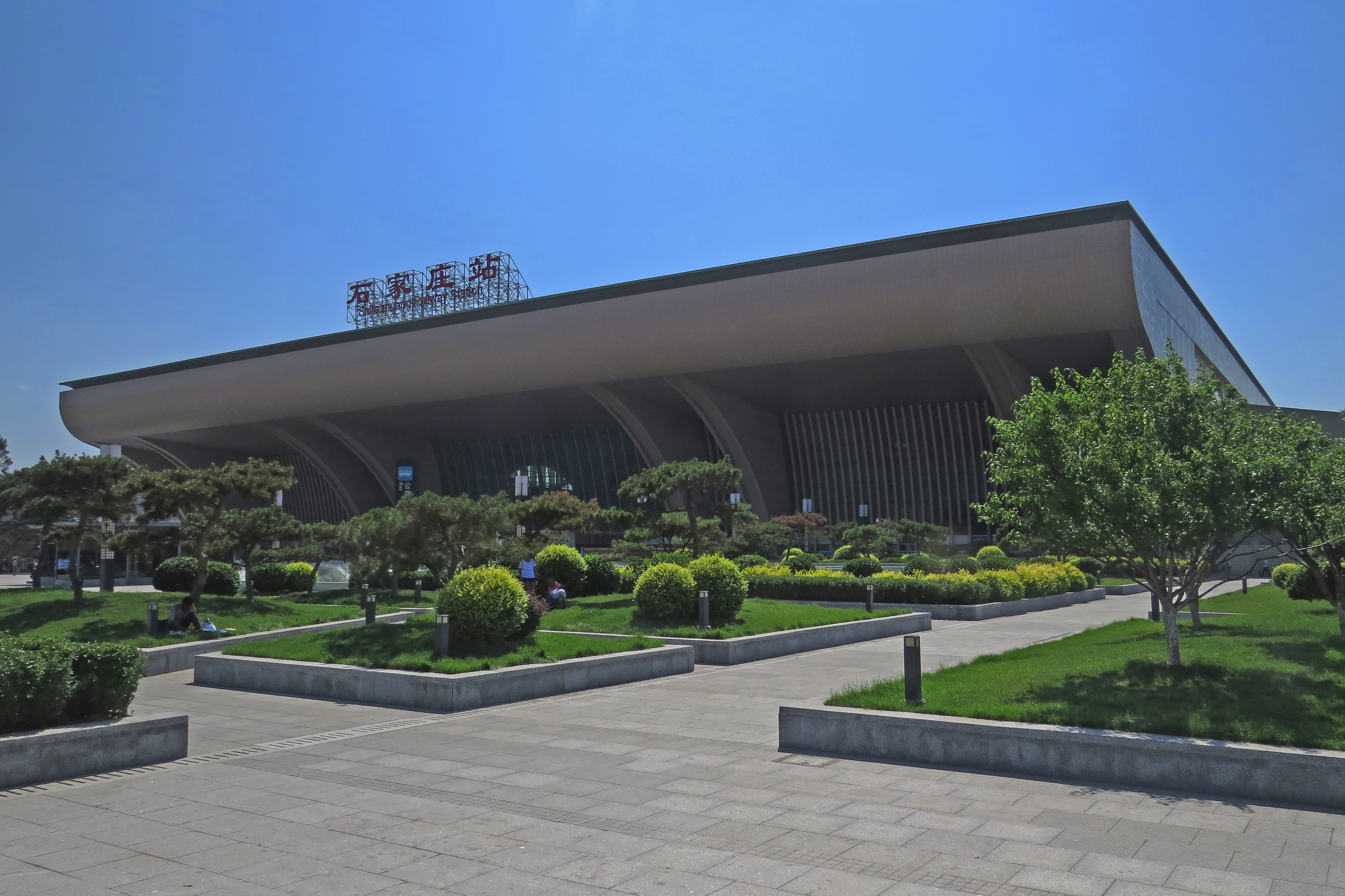 Originally a shadowgraph, hmm... 30 minutes prior to departure.